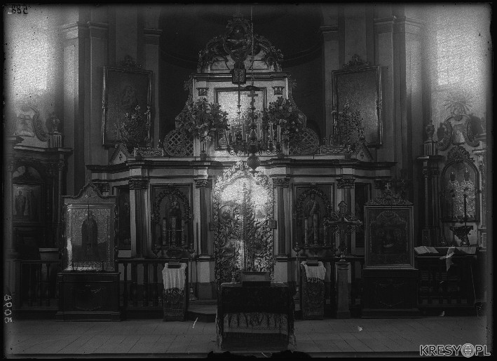 Iconostasis of church of the Presentation of Jesus at the Temple in Olyka